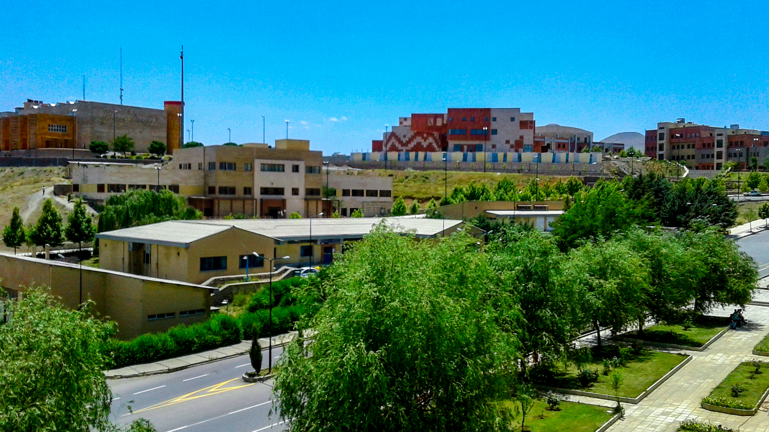 Central library, Faculty of engineering, Buffet, Education office